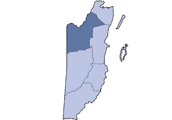 District of Stann Creek in Belize